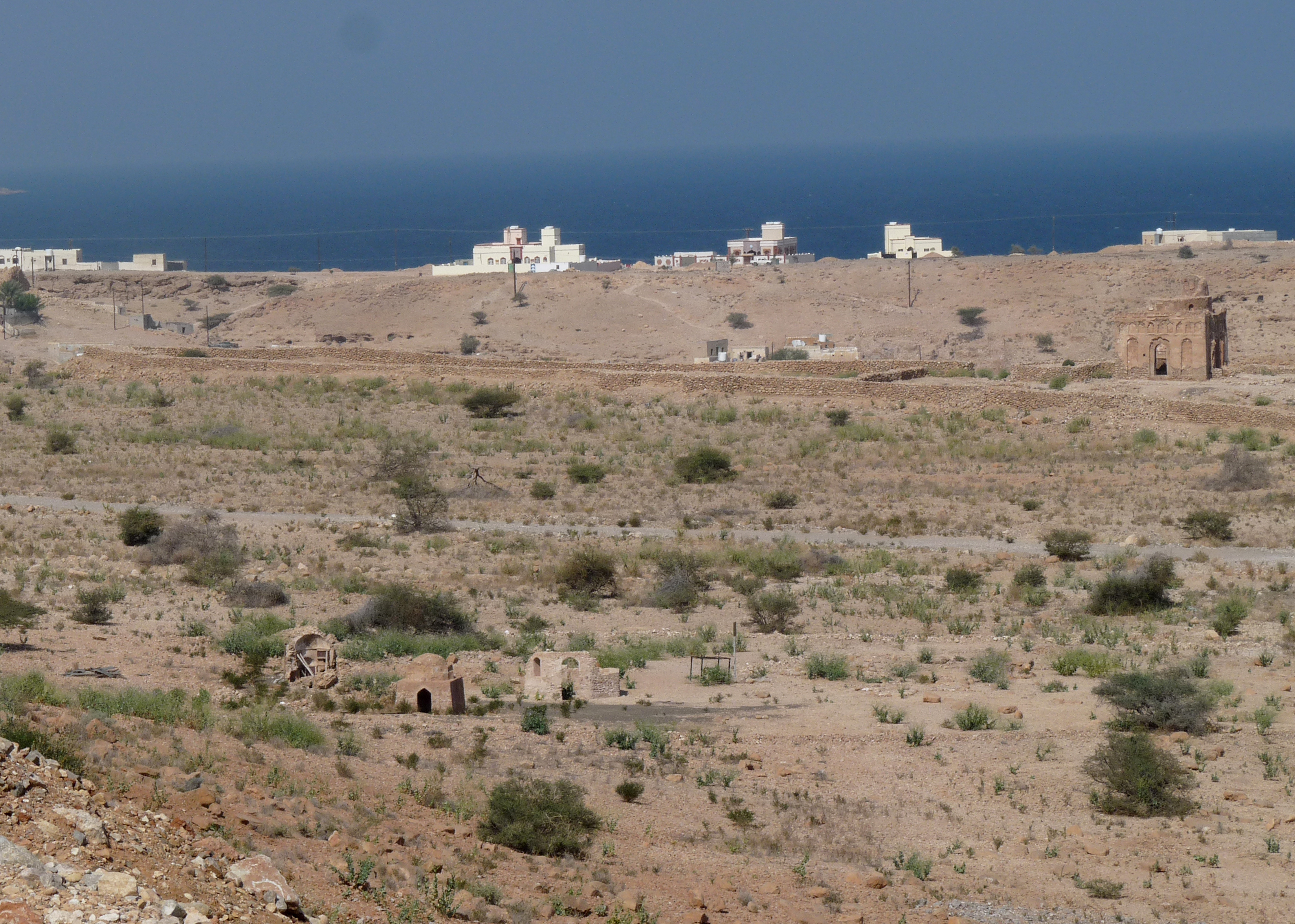 Bibi Maryam Mausoleum in Qalhat (Oman)